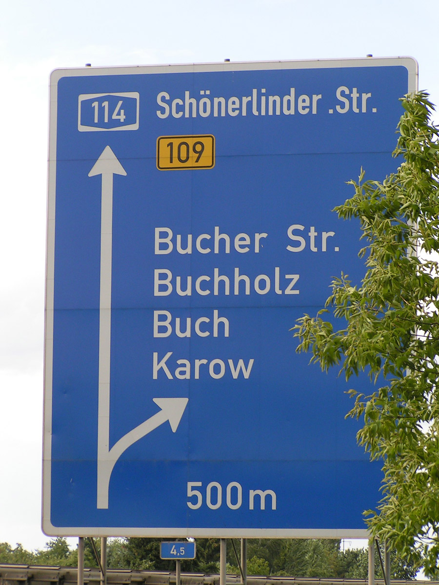 The road sign 500 m in front of Bucher Straße exit on the motorway A 114 in Berlin.